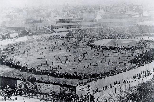 01:15, 10 August 2006 . . Wahkeenah . . 648×428 (87,110 bytes) (Widely-circulated photo of a game in the 1903 World Series, presumably taken from the roof of the warehouse across the street.)